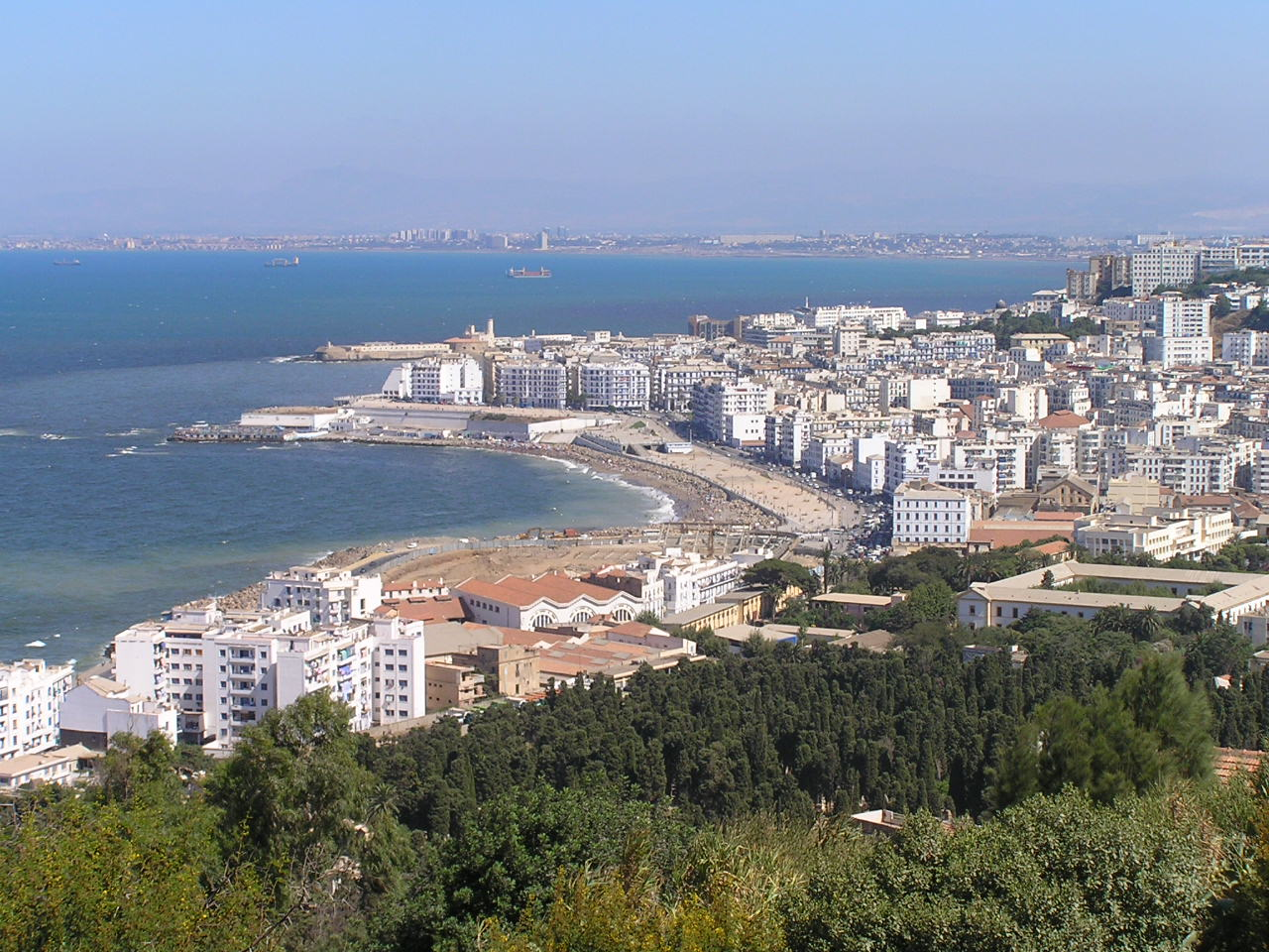 The coast of Algiers (Algeria), as seen from the basilica of Our Lady of Africa.